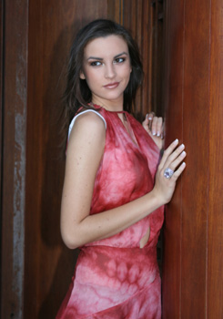 Miss Italy 2007 - Giada Wiltshire in Miss World 2007, Sanya, China